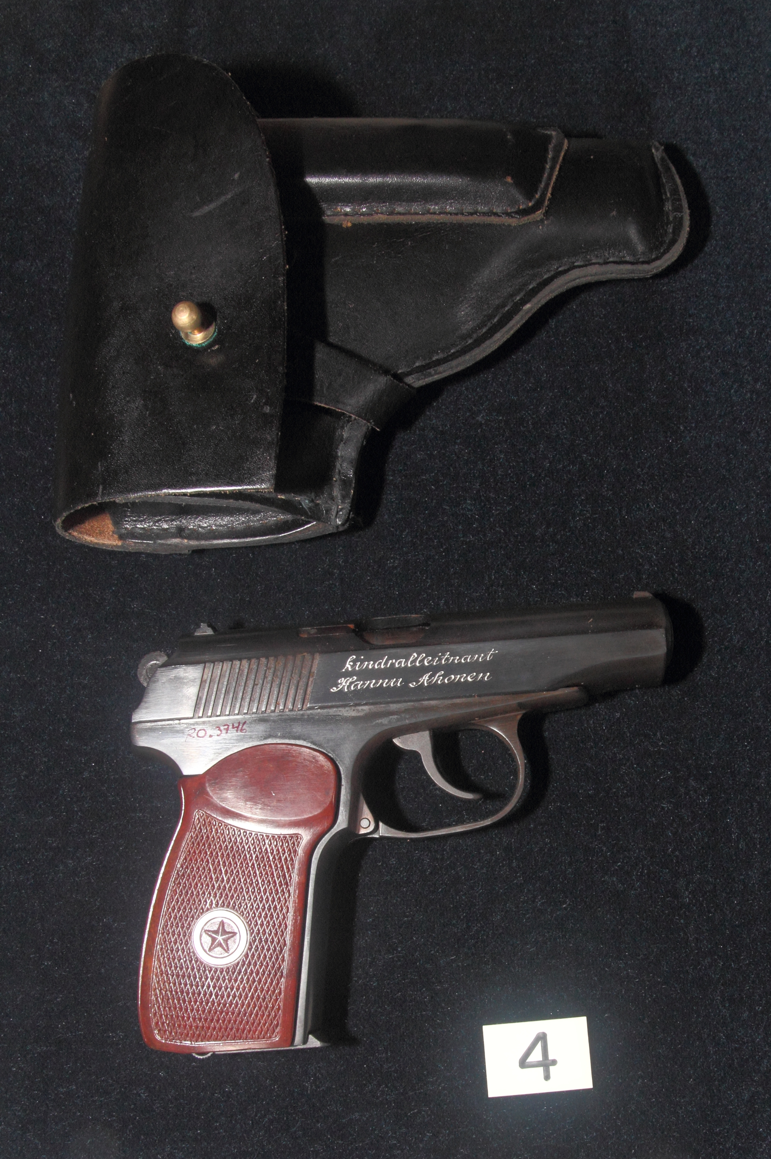 Makarov pistol received by lieutenant general Hannu Ahonen as a gift from the Estonian border guard in Imatra Border Museum.